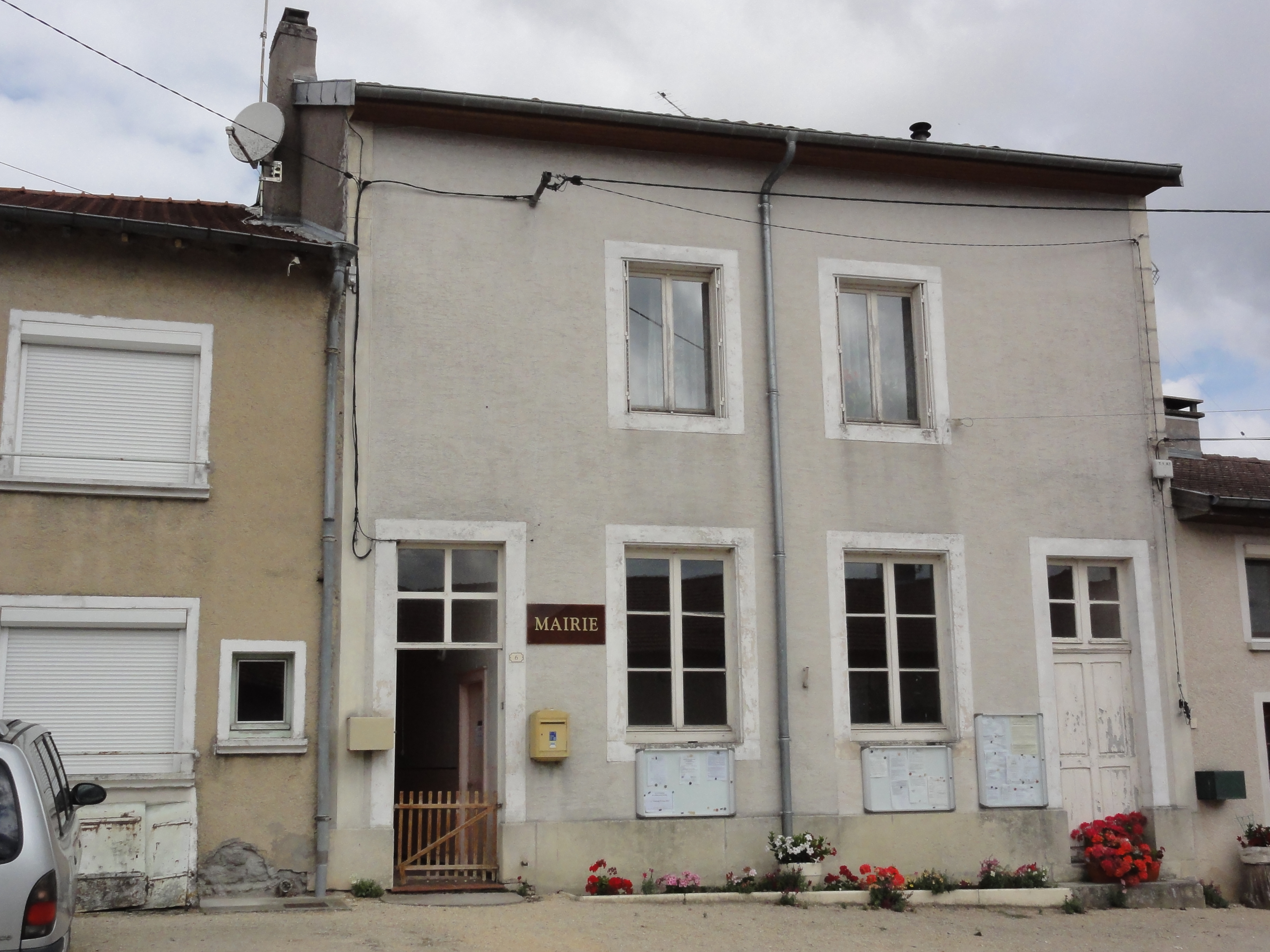 Rigny-Saint-Martin (Meuse) mairie